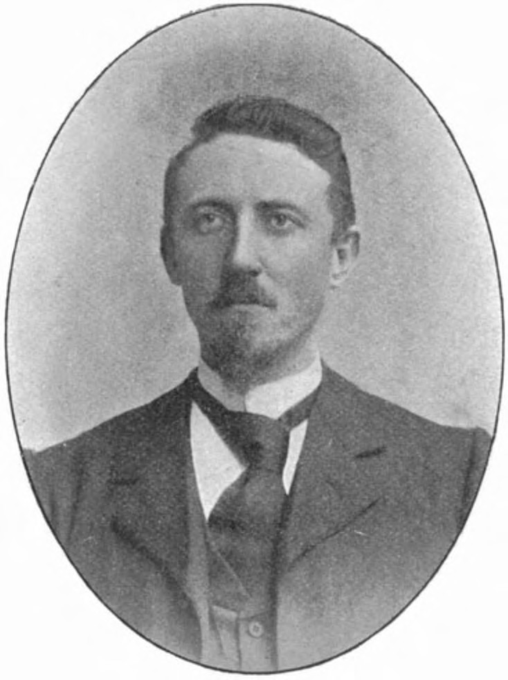 nameG. W. MELCHERS. political affiliationSocial Democratic Workers' Party positionmember of the House of Representatives of the Netherlands electoral districtLeeuwarden